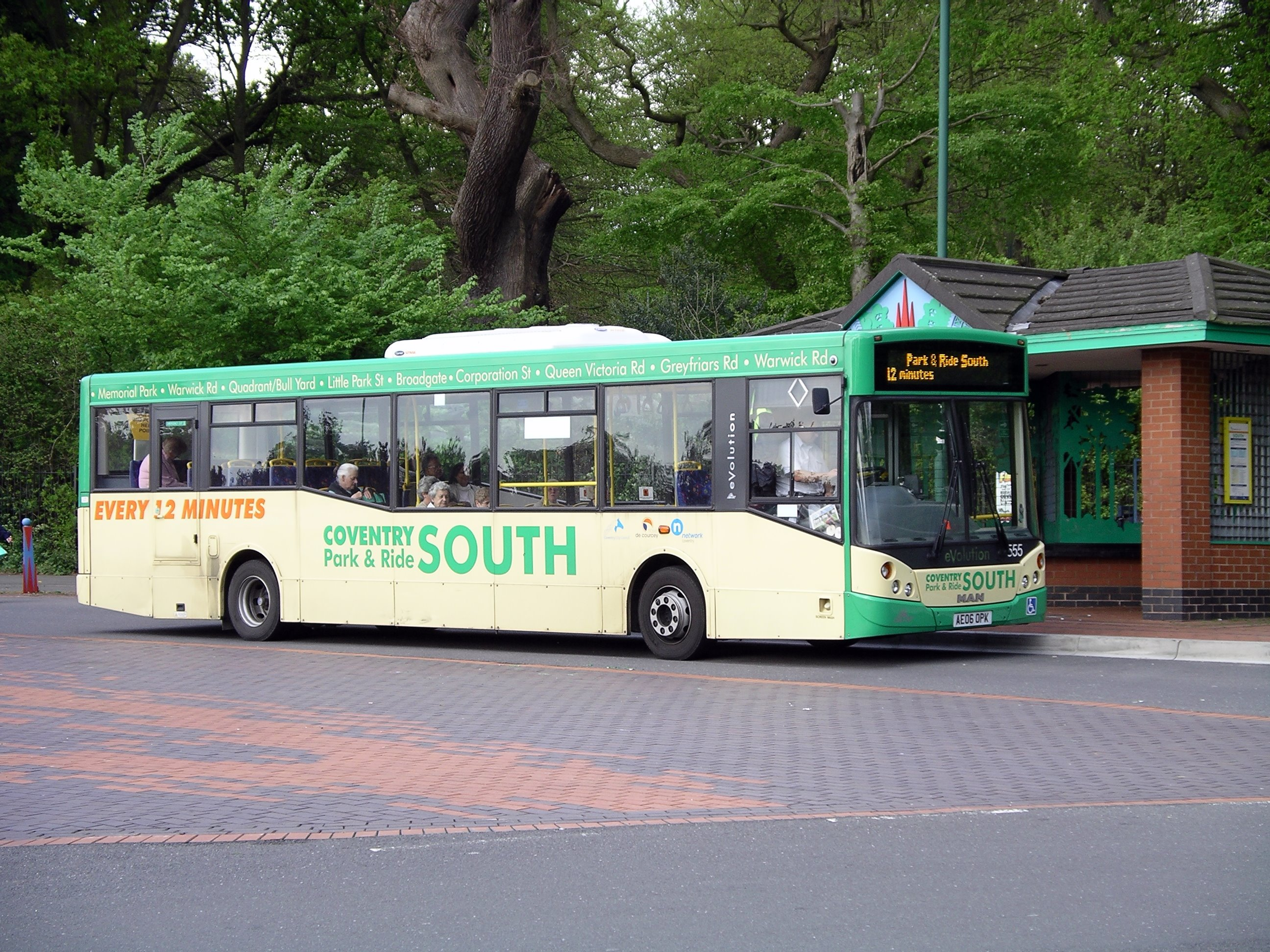 MAN chassis / MCV Evolution bus (#555, reg. AE06 OPK) used in the "park & ride" scheme in Coventry, England between the War Memorial Park and the City Centre.